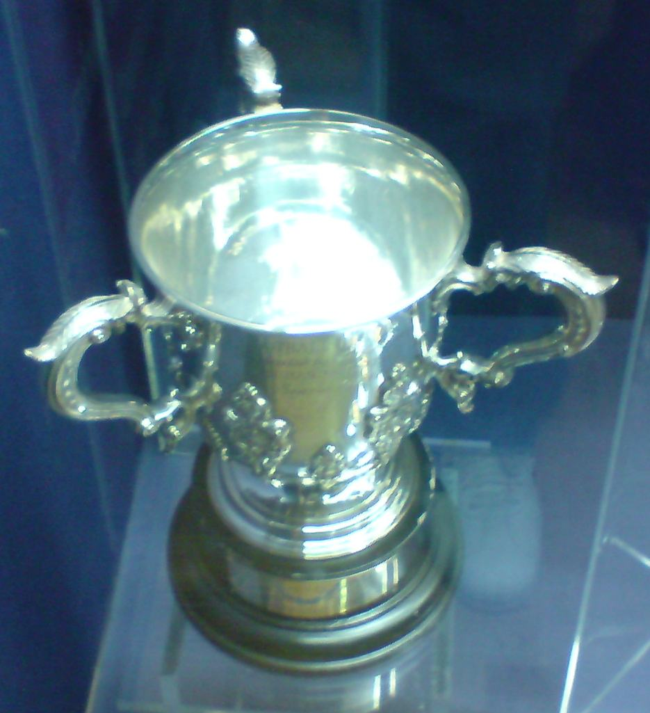 Football League Cup trophy at the Old Trafford museum